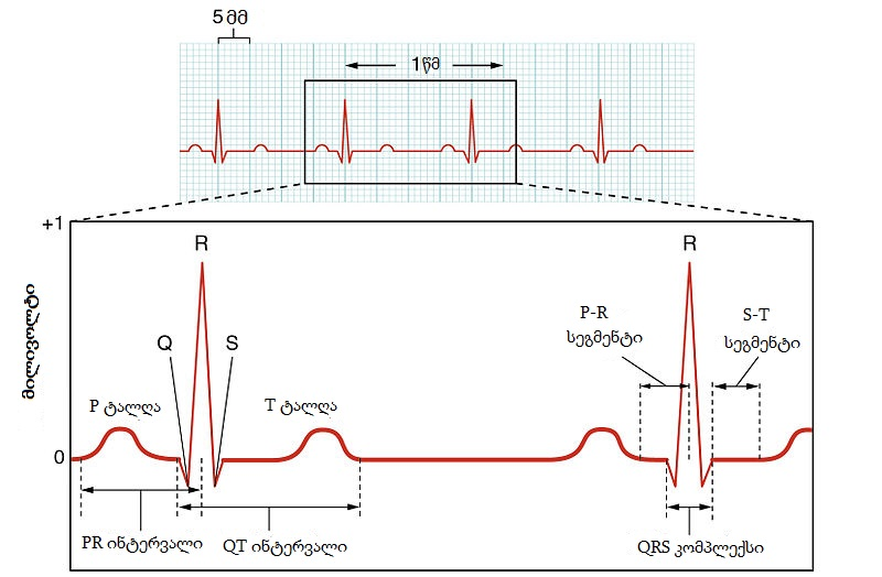 Illustration from Anatomy & Physiology, Connexions Web site. Jun 19, 2013.